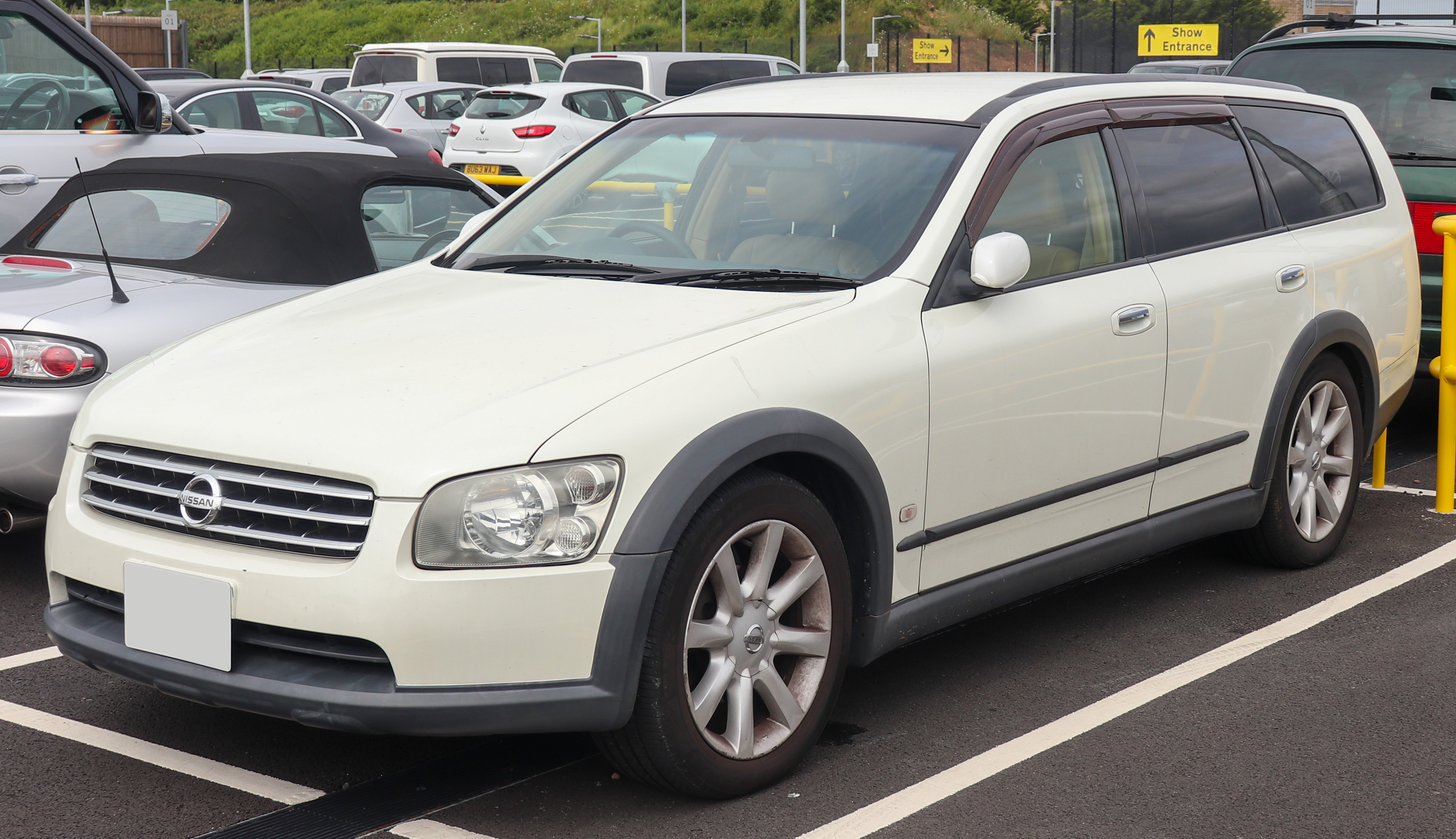 2003 Nissan Stagea AR-X Four 2.5 Taken at the British Motor Museum, Gaydon